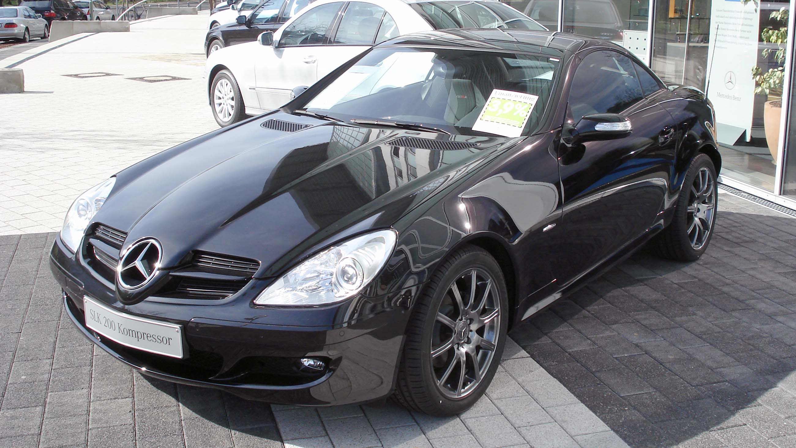 Mercedes SLK 200 Kompressor Edition 10